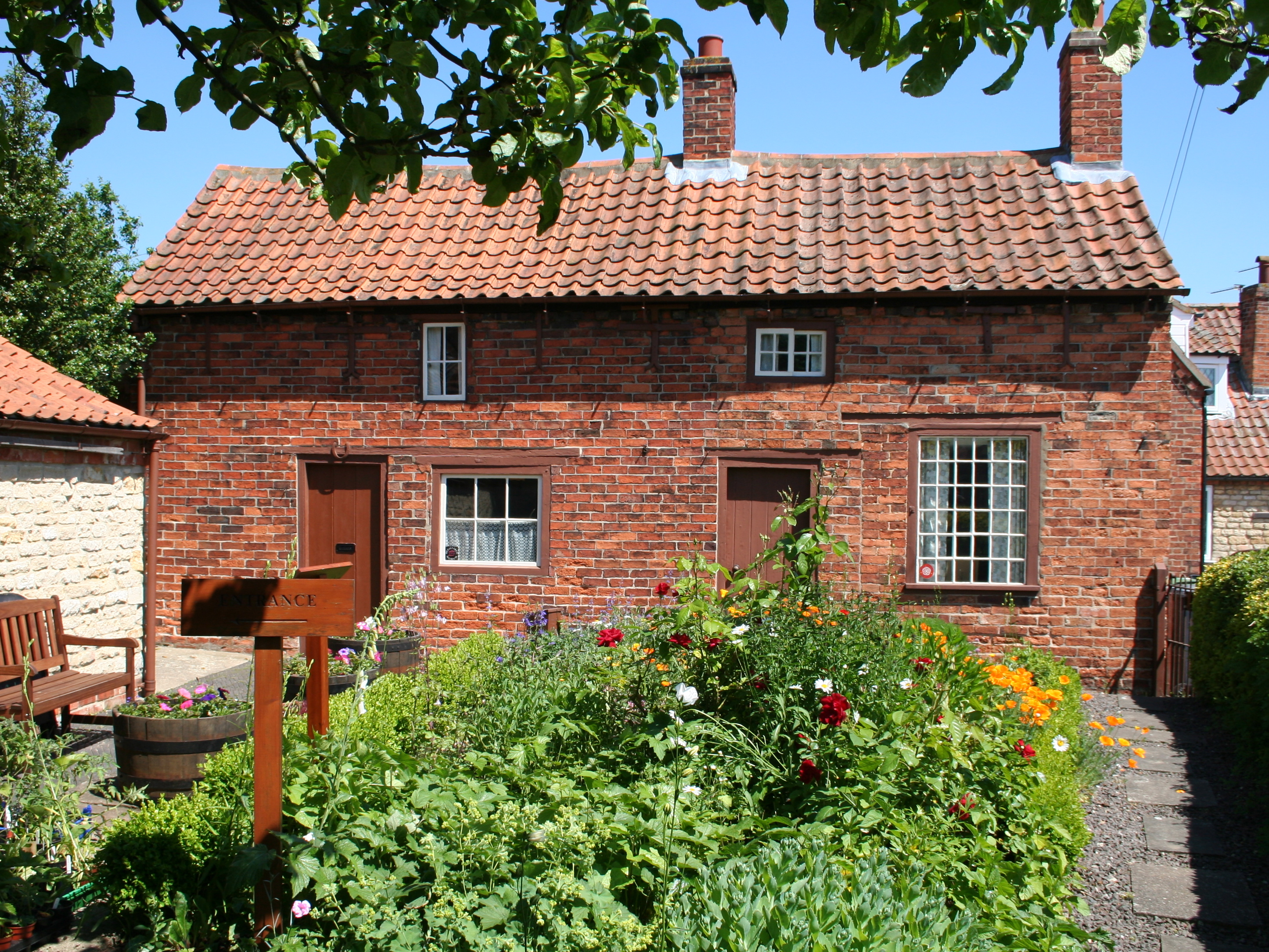 Mrs Smith died in 1995, aged 102. She lived in this Grade II listed cottage for most of her life until a few months before her death. A fascinating place going back to the Victorian times. The only modern things she brought to the house were electricity, a toilet (which she never used, prefering a bucket in the privvy) and one single cold water tap. She bathed in a tin bath and heated her water on a range. The villagers decided that the place should be preserved as a reminder of a bygone age.